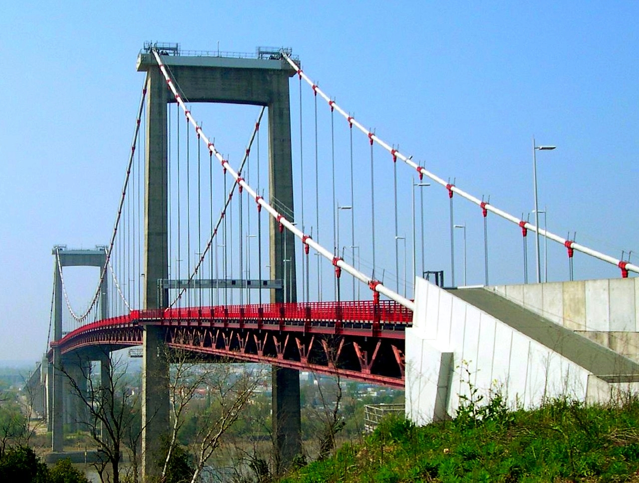 The Pont d'Aquitaine over the Garonne River at Bordeaux (Gironde)